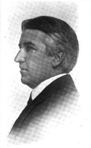 Photograph of American author George Cram Cook (1873-1924), appearing in The Bookman (March 1911), p. 5 (Volume 33, Issue No. 1)